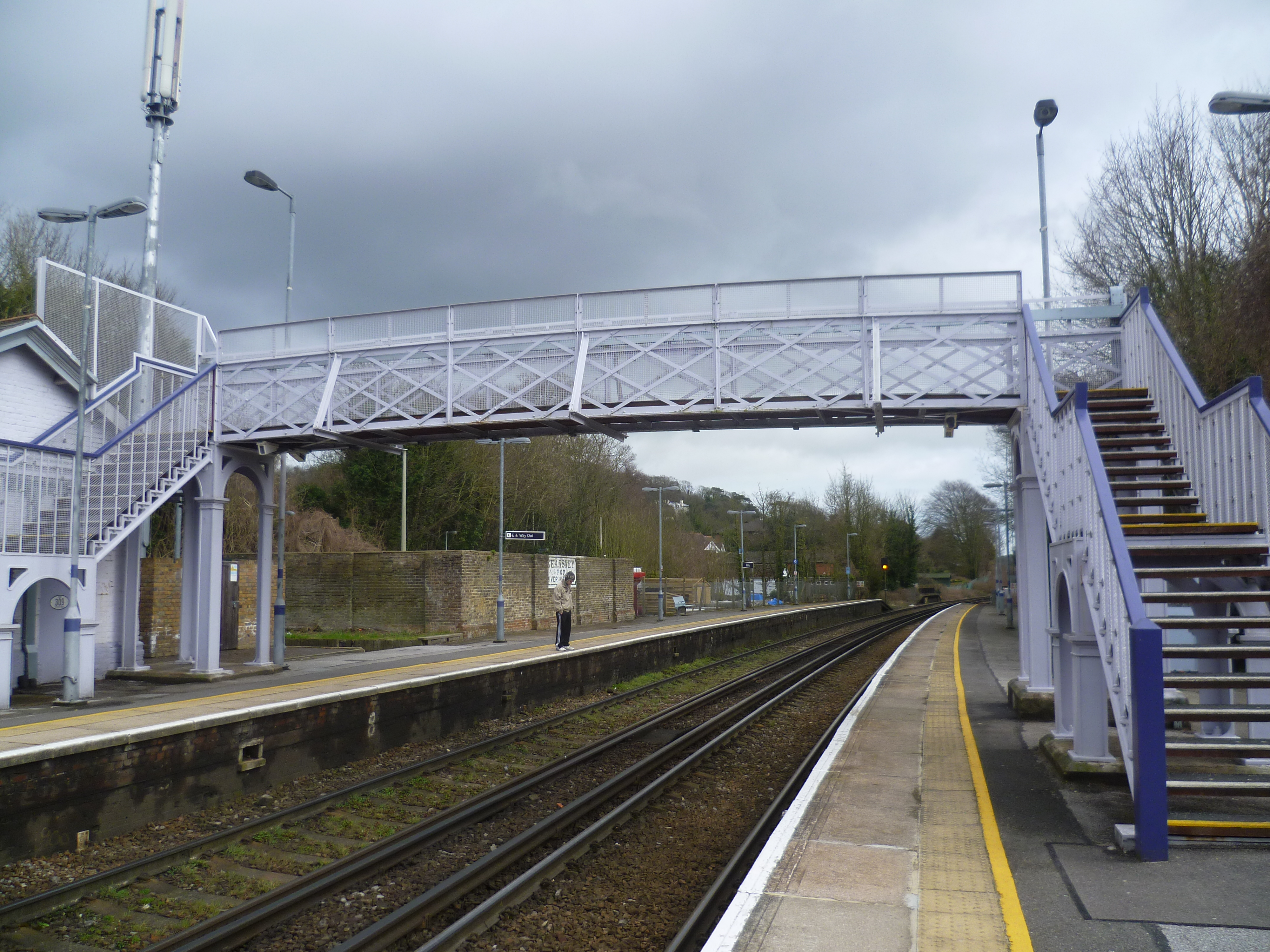 The footbridge at Kearsney station